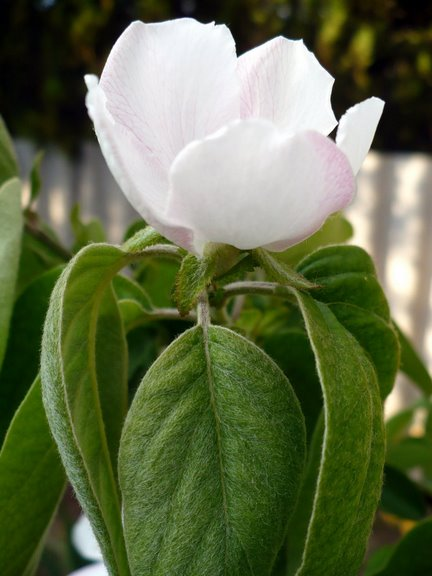 Quince flower